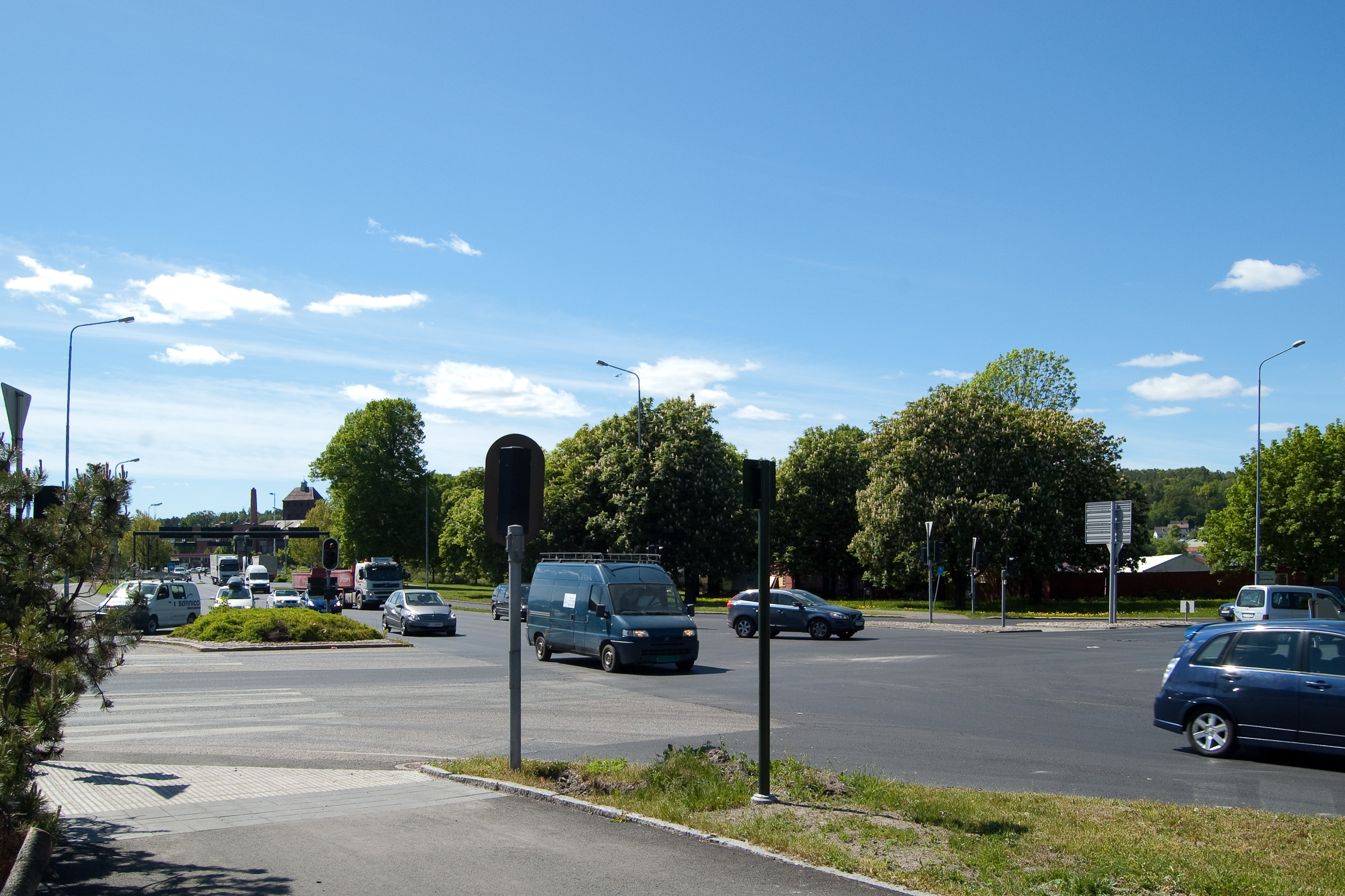 Mammutkrysset ("The mammoth intersection") in Tønsberg, Vestfold, Norway, seen from the north.